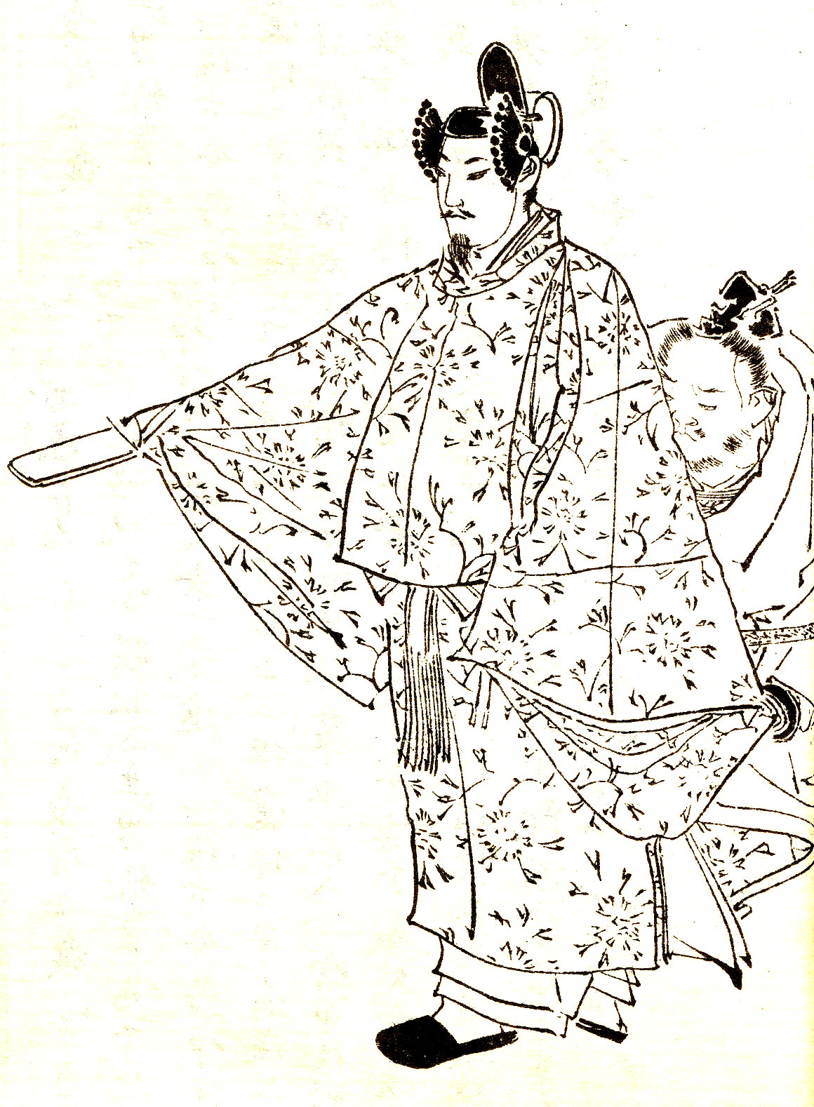 Fujiwara no Mitsuyori（藤原光頼）was a Japanese politician and court noble in the late Heian and early Kamakura periods.This picture was drawn by Kikuchi Yosai（菊池容斎） who was a painter in Japan.